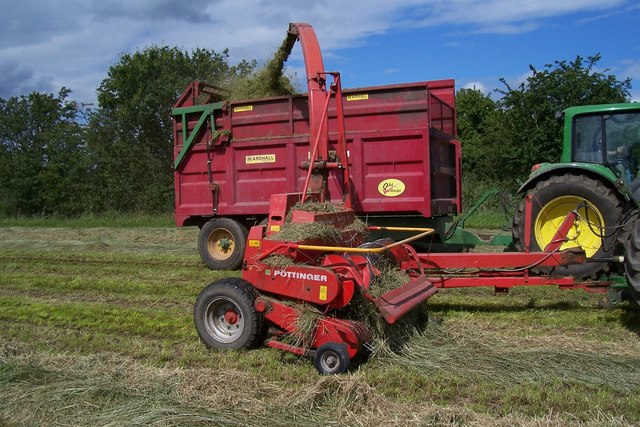 Chopping grass for silage (with a Pöttinger forage harvester and a Marshall trailer, both pulled by tractors) near to Blairhall, Fife, Great Britain. Balgownie Mains silaging operations.